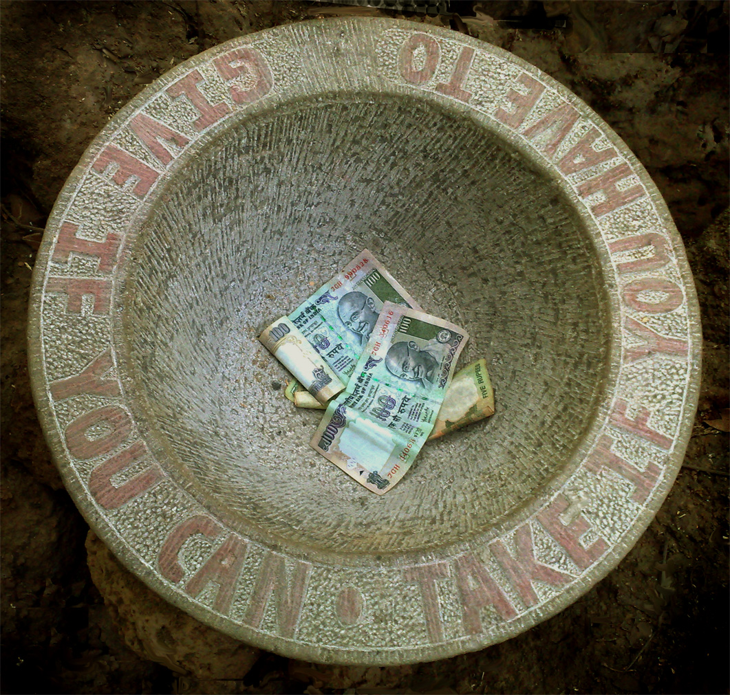 A stone sculpture created by an American Conceptual and Land artist Jacek Tylicki. Name of artwork: "Give if you can - Take if you have to". Location: Lake Beach Valley, Arambol, Goa, India.